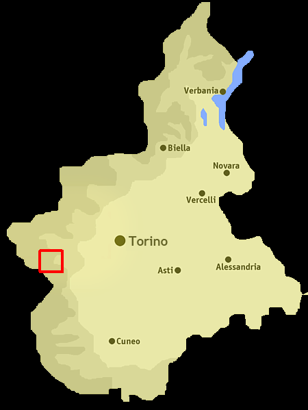 Germanasca valley position within Piedmont (NW Italy)